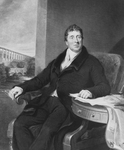 Engraved portrait of Thomas Telford published on front cover of: Atlas to the Life of Thomas Telford - Civil Engineer in 1838. Engraved by W. Raddon from a painting by S. Lane